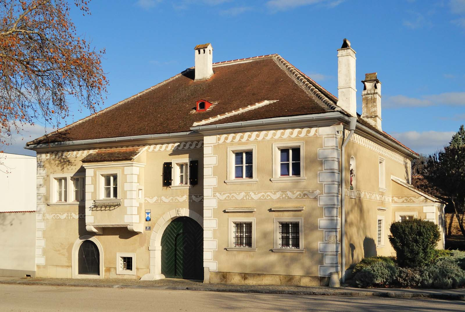 Residential building in Sommerein, Lower Austria, Austria